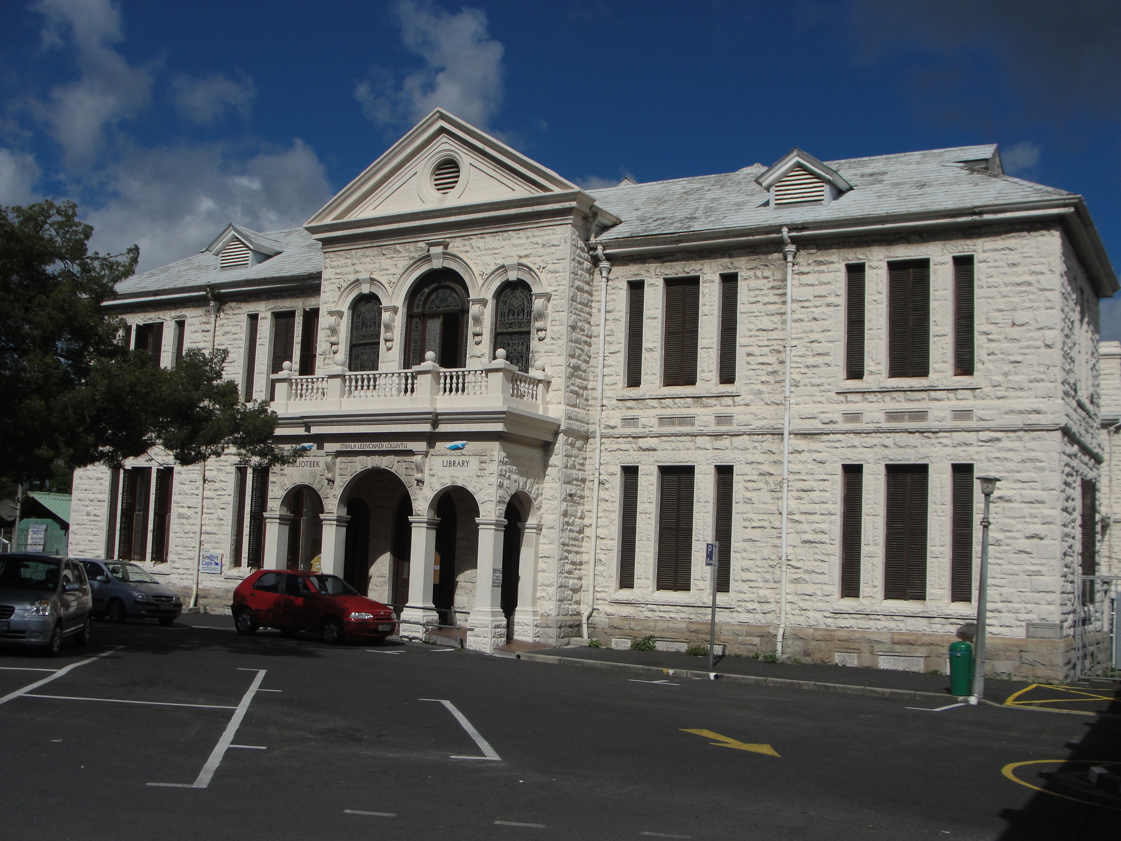 The Rondebosch Town Hall, currently housing the Rondebosch Library